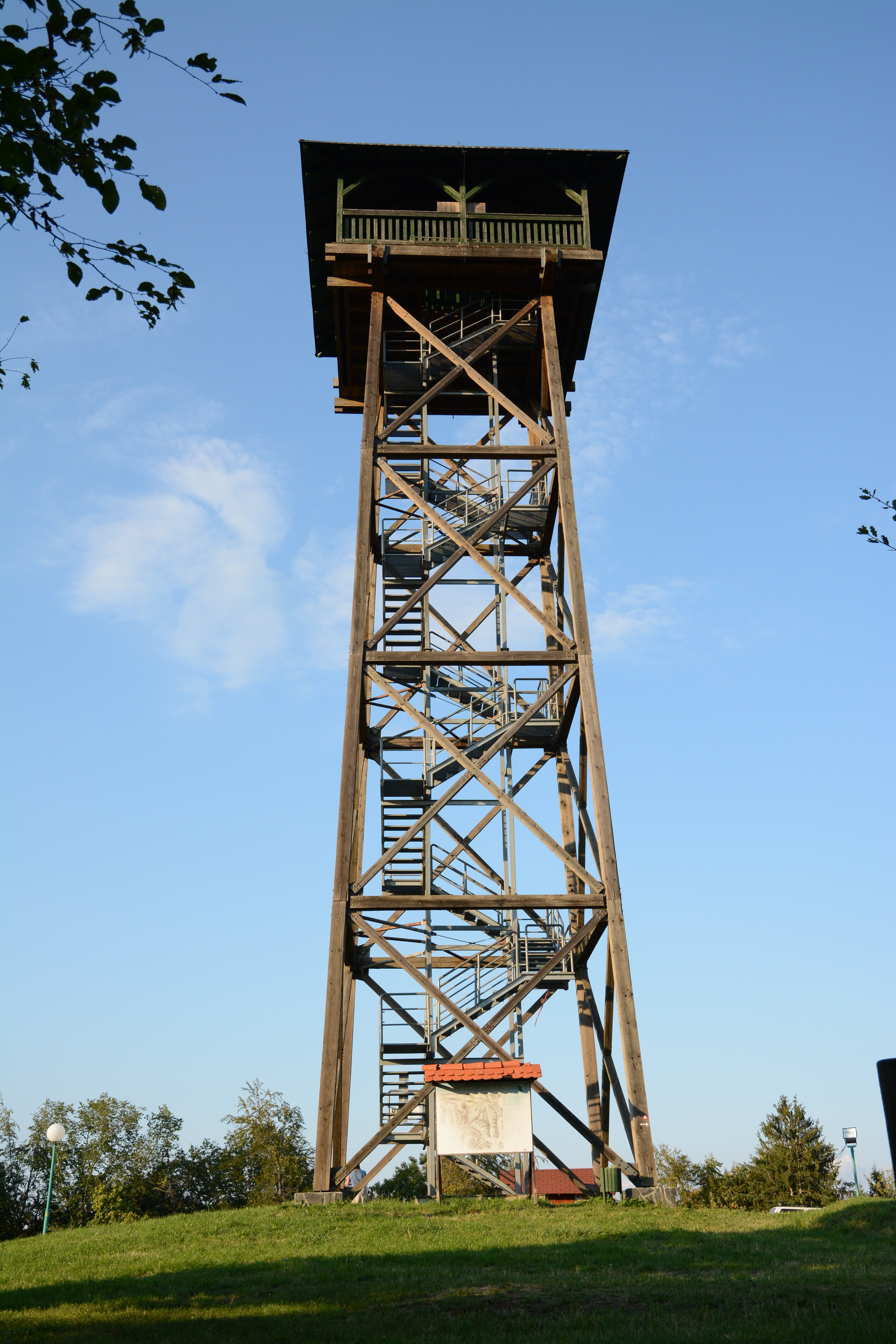 Placki vrh Kungota